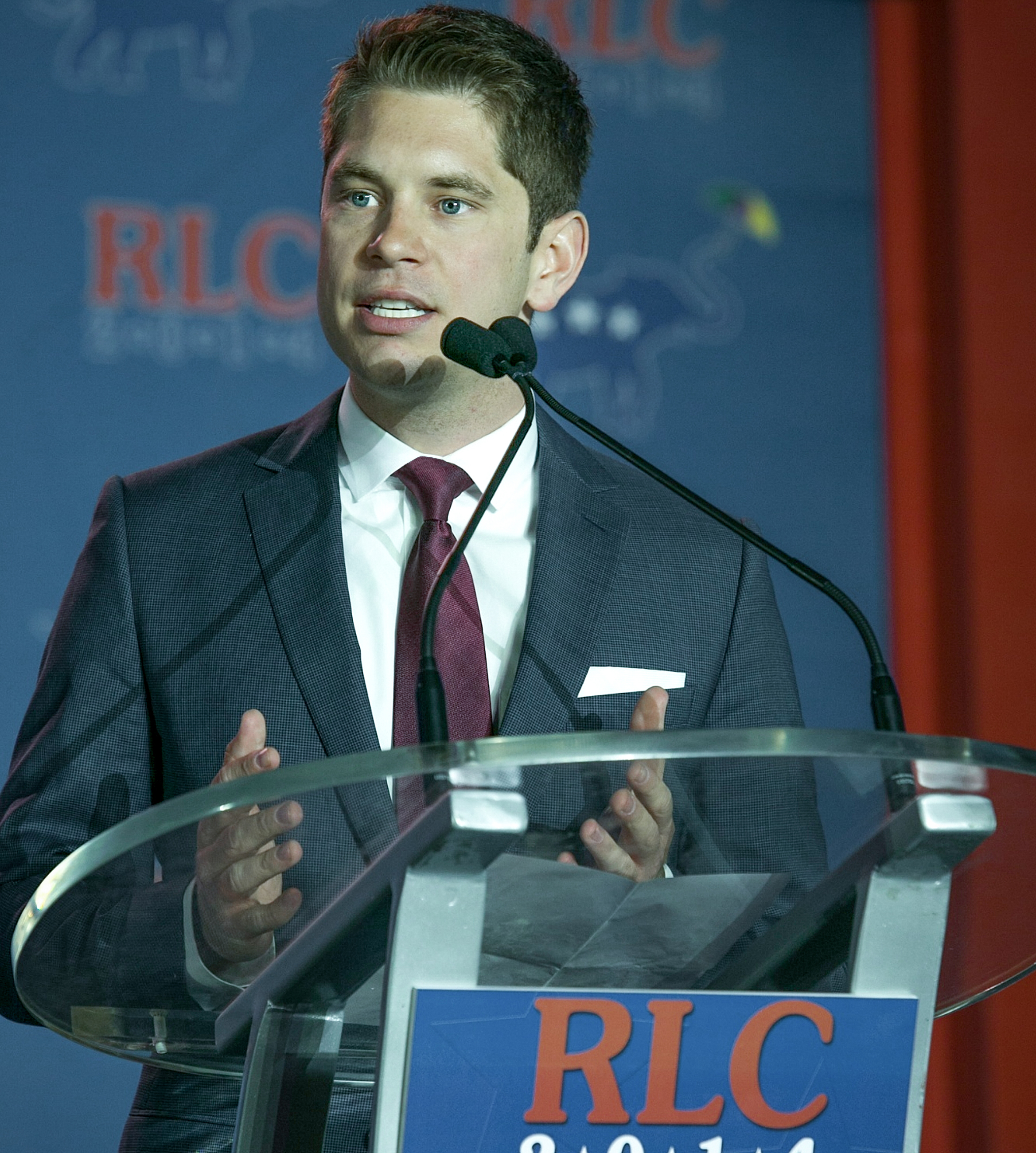 Caleb Bonham speaking during the Republican Leadership Conference